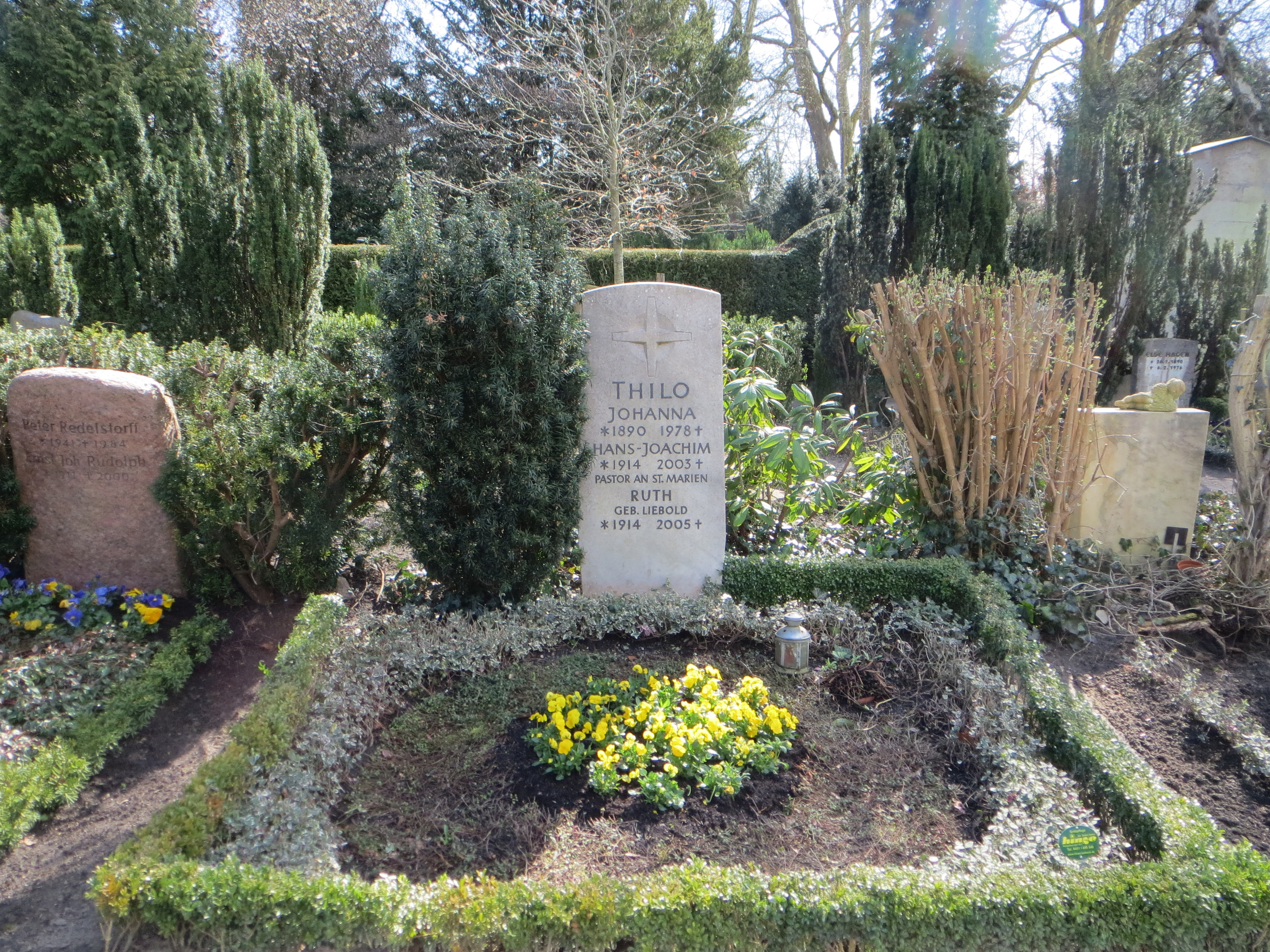 Grave of Hans-Joachim Thilo and family, Burgtorfriedhof Lübeck